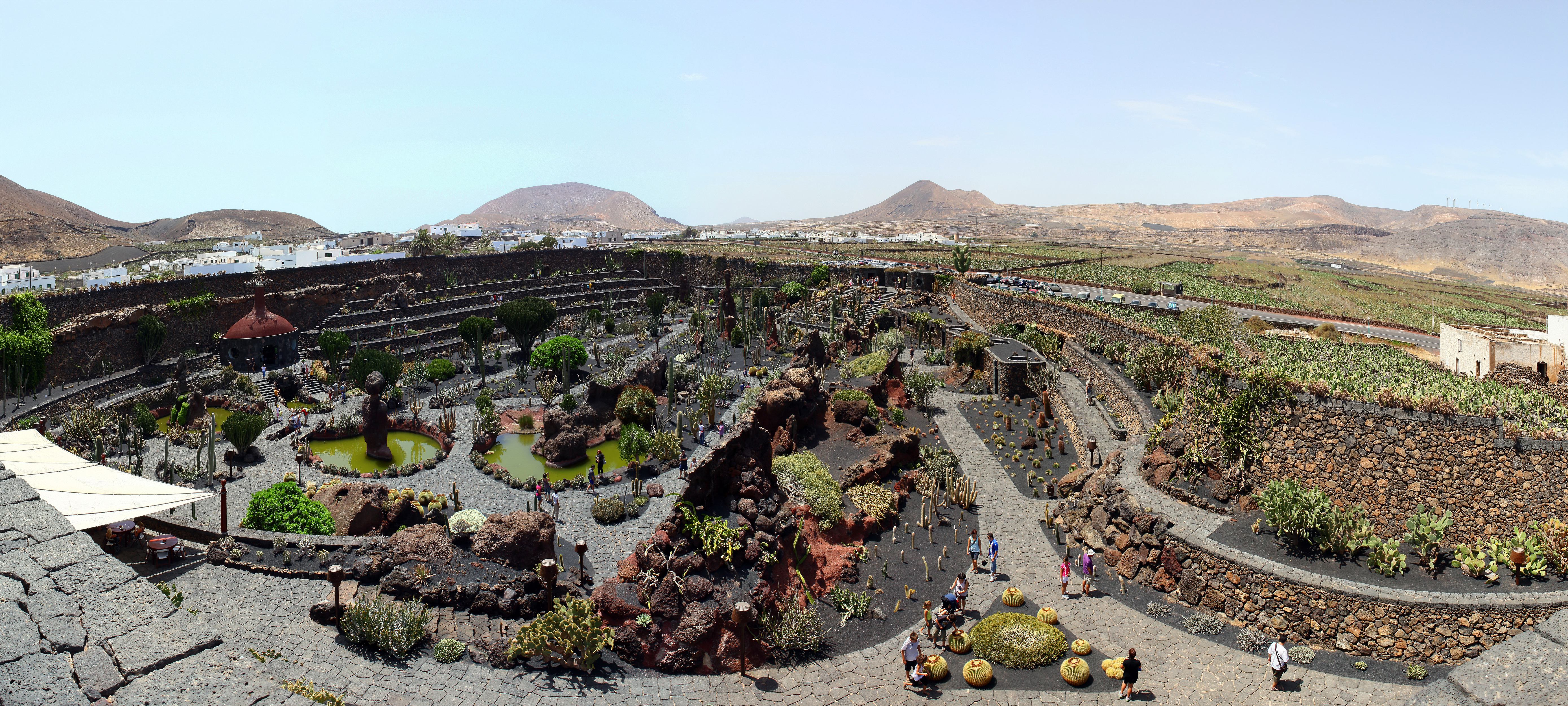 Panoramic view of Jardín de cactus ("Cactus garden") by Manrique, in Guatiza, Lanzarote.